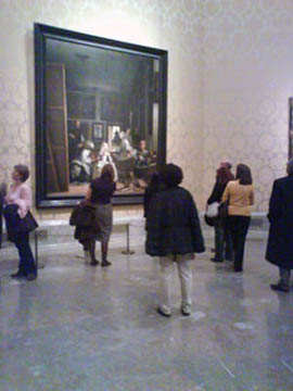 Visitors in front of Velázquez's Las Meninas in the Prado museum